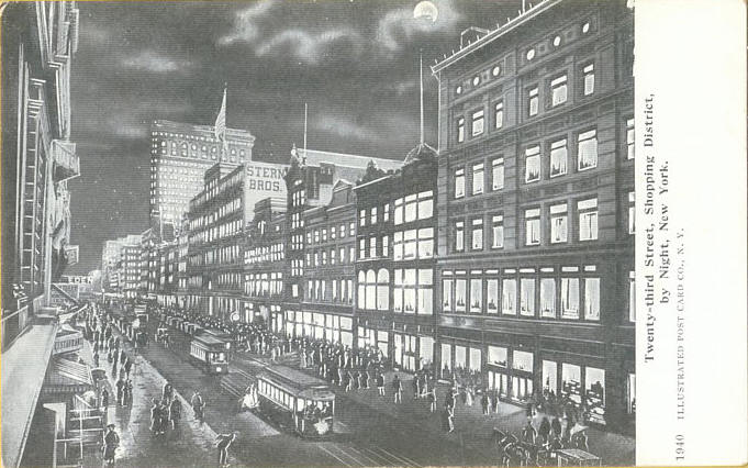 Postcard: 23rd Street in Manhattan, New York City, estimated to have been published in 1910. Caption: "Twenty-third Street, Shopping District, by Night, New York" Description: Unmailed postcard. Store Web page states year published is estimated to be 1910 (title of Web page: "NY~NEW YORK CITY~23rd Street at Night~c1910 BEAUTY" Picture side of postcard (only side shown on store Web page) states "1940 ILLUSTRATED POST CARD CO., NEW YORK." The number "1940" is a typical inventory or catalog number of a type seen on many postcards in the early Twentieth century. For a very similar example, see this image of a postcard apparently in the same series: :Image:PostcardNYCSubwayStationBrooklynBridgeCIRCA1908.jpg. Source: eBay store Web page